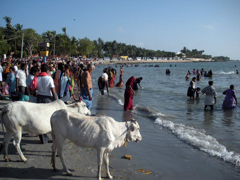 People and animals alike gather for the Holy Bath, Rameswaram